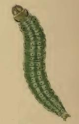 Stainton’s Natural History of the Tineina (1855–1873): Agonopterix atomella